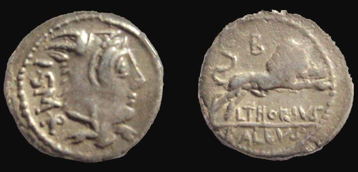 Own photograph of Lucius Thorius Balbus coin